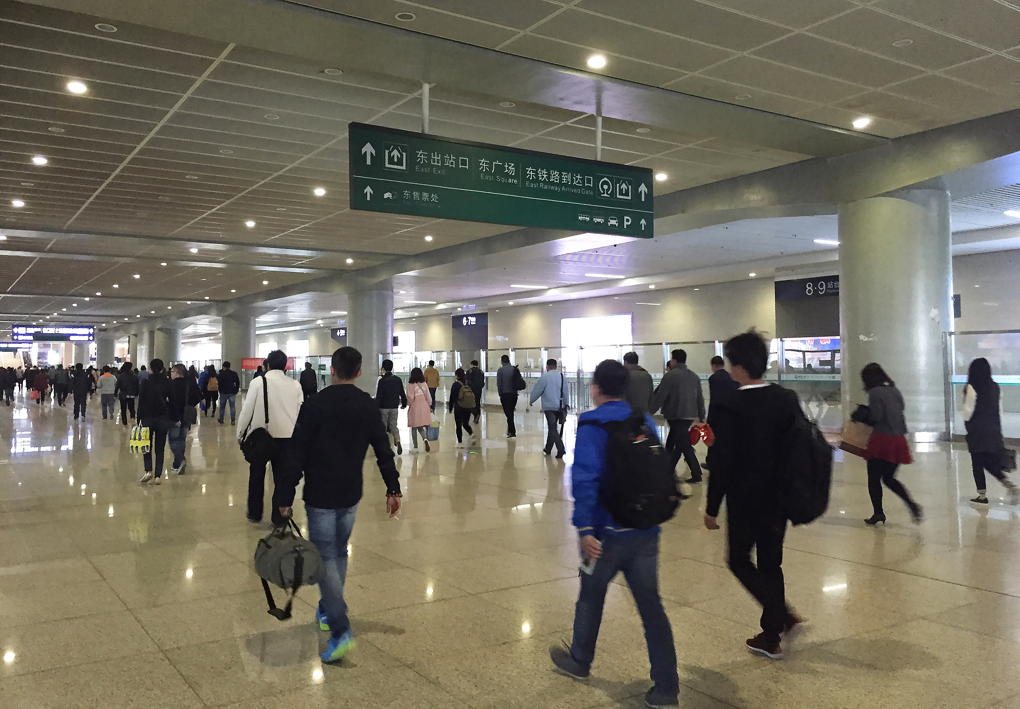 The west exit is still under construction.